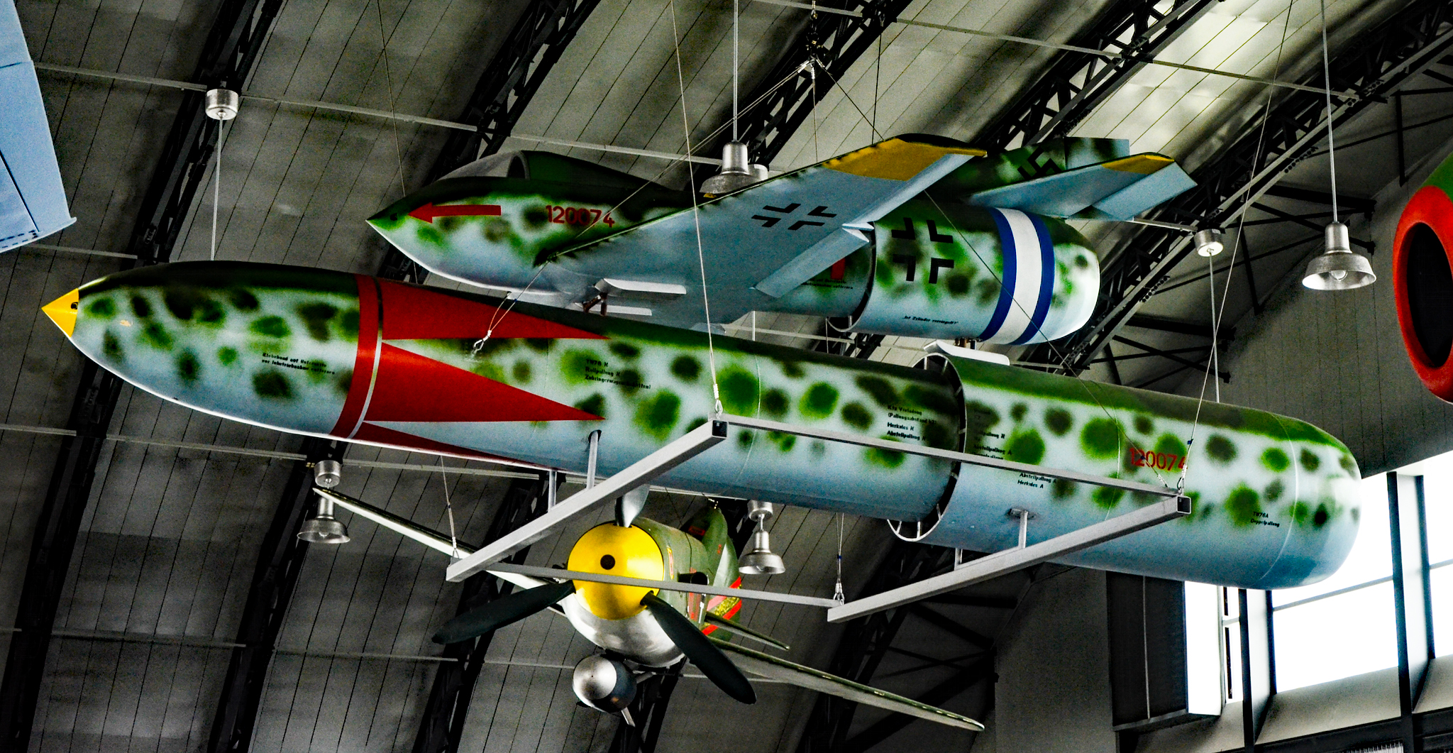 Military Aviation Museum Virginia Beach Airport (42VA) Photo: TDelCoro July 21, 2018